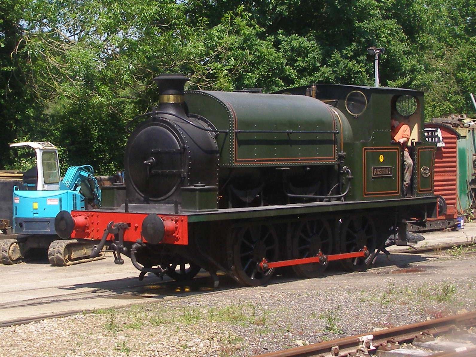 Kitson 0-6-0 Steam Locomotive at the Lavender Line, East Sussex, England